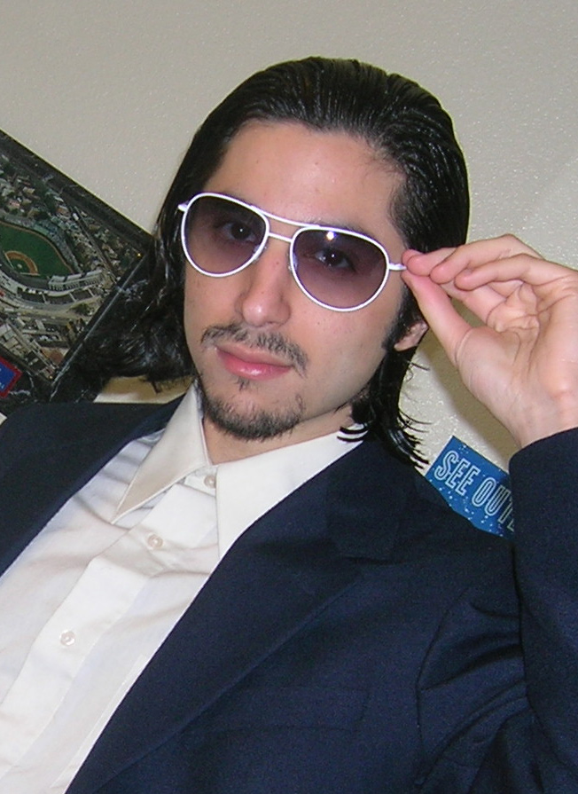 Cropped version of Image:Slicked back.jpg